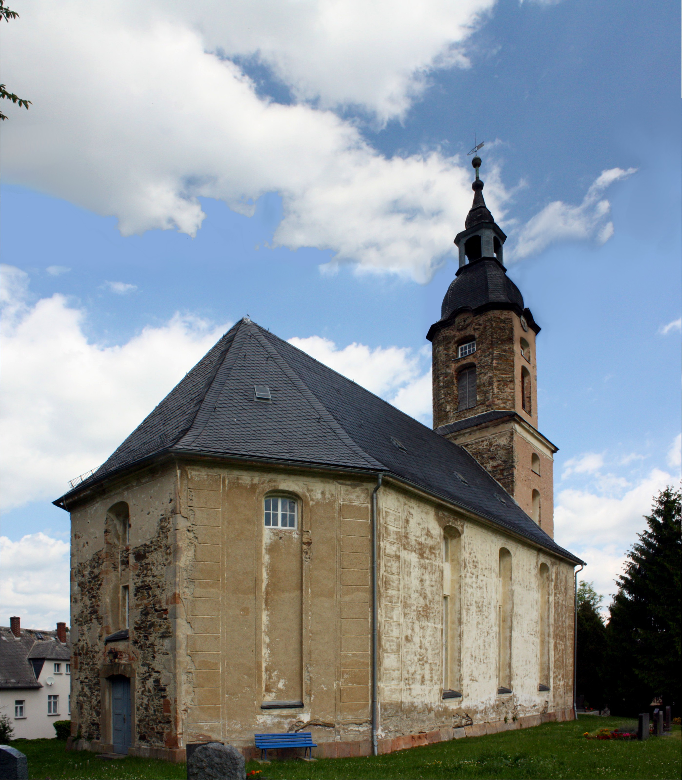 Church in Auma-Döhlen near Greiz/Thuringia